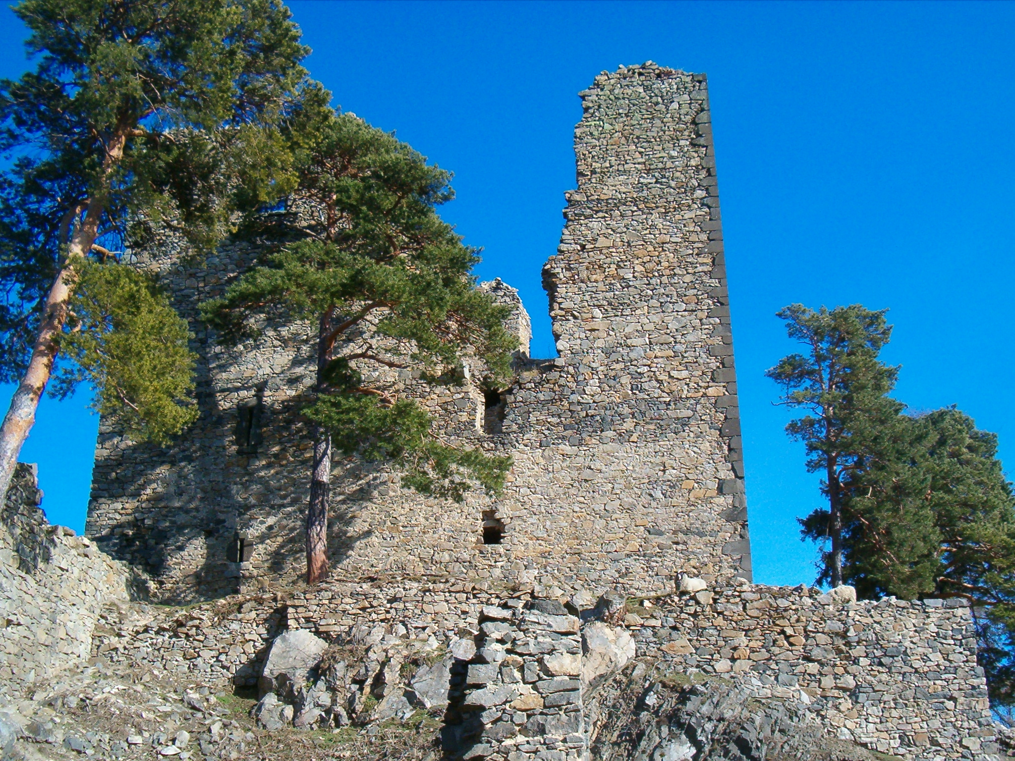 Helfenburk near Bavorov - sight to original double-palace core, South Bohemia.